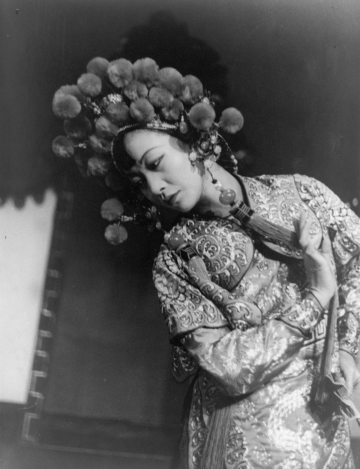 Portrait of Anna May Wong, in "Turandot" at Westport